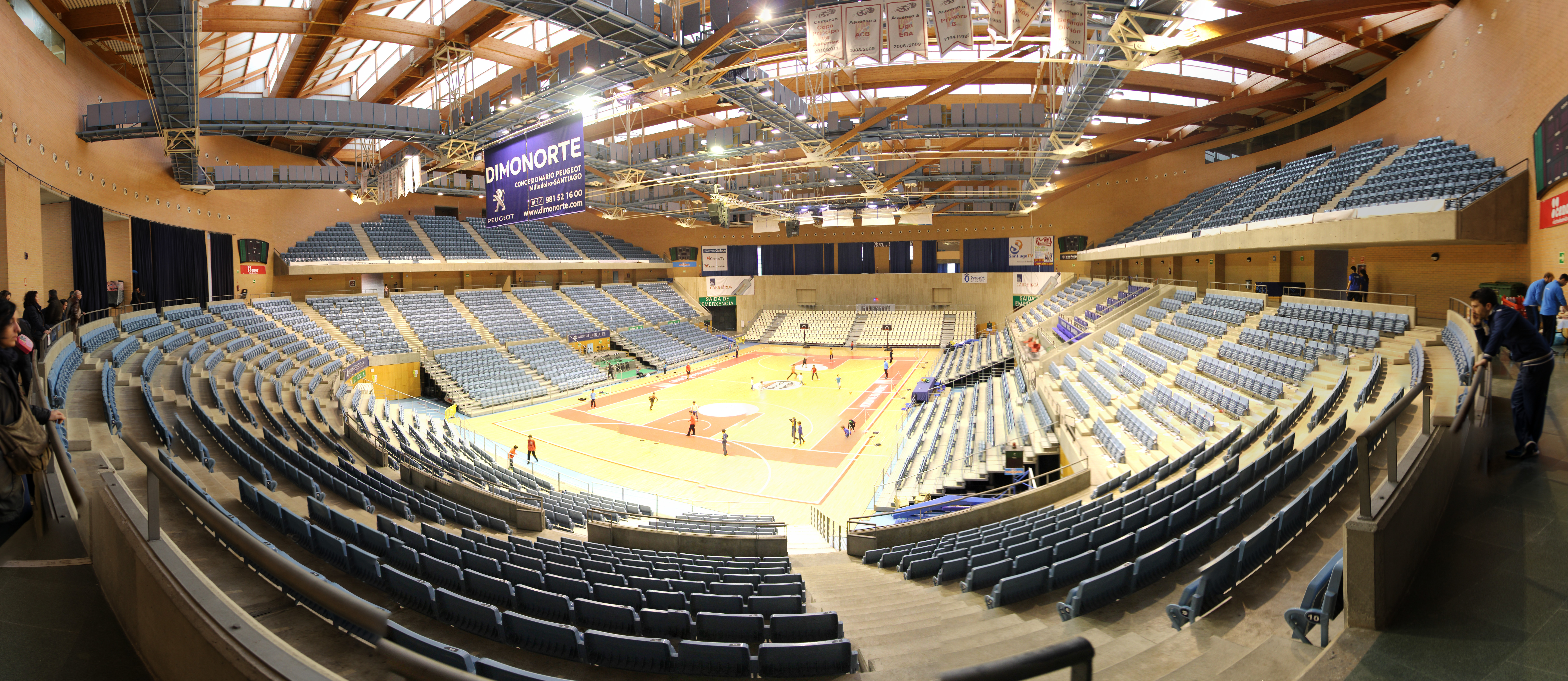 Multipurpose pavilion "Fontes do Sar" ("Sources of Sar") in Santiago de Compostela, Galicia, Spain.